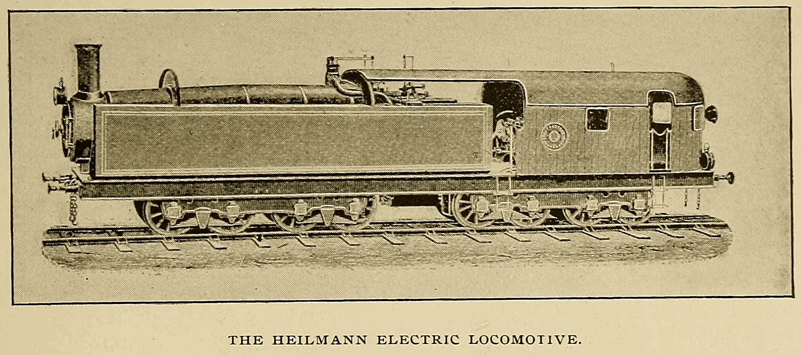 Cassier's Magazine of April 1894 had an article on page 460-466, describing The Electric Locomotive of To-day. Among the illustrations was this, showing the Heilmann Electric Locomotive, on page 463.